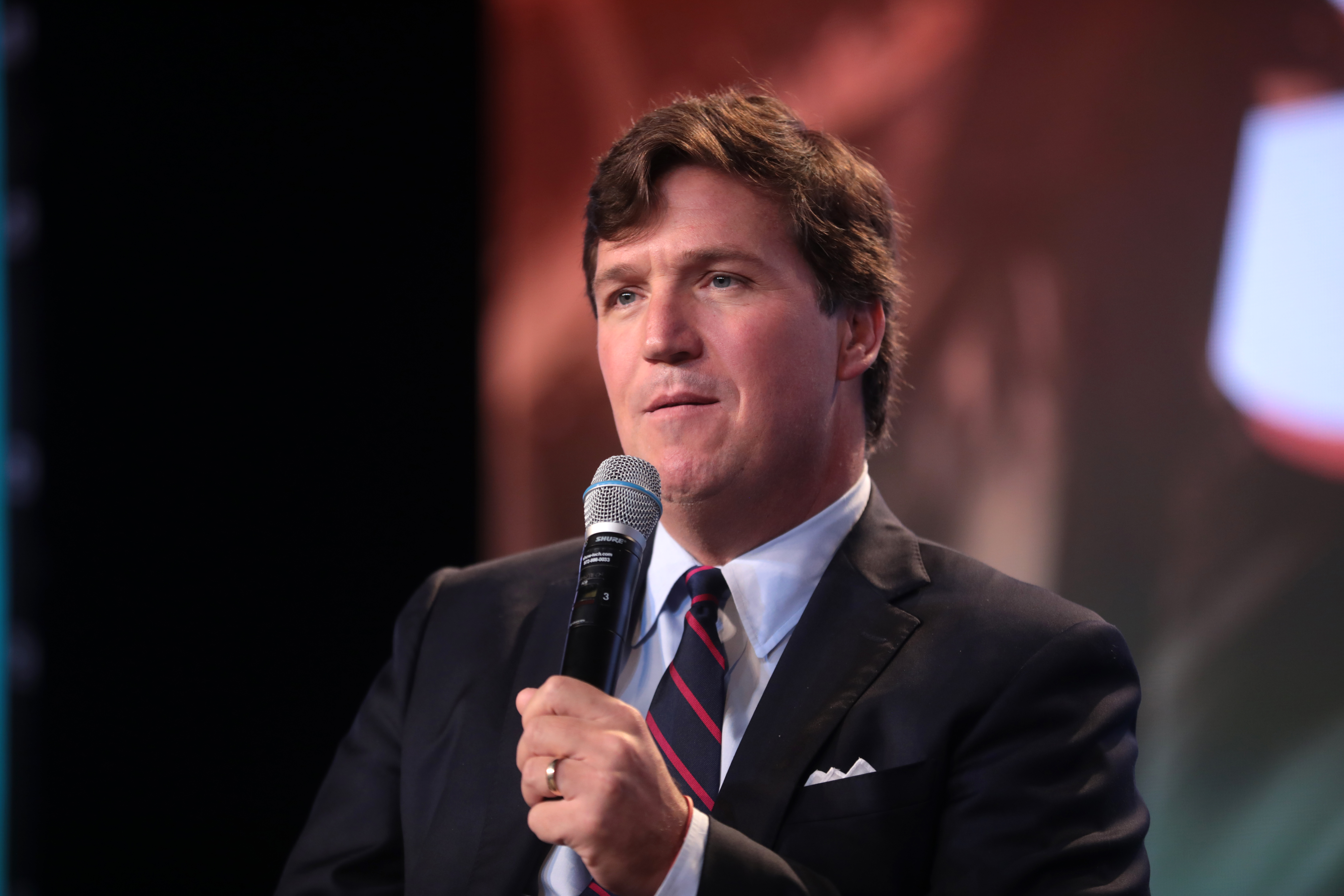 Tucker Carlson speaking with attendees at the 2018 Student Action Summit hosted by Turning Point USA at the Palm Beach County Convention Center in West Palm Beach, Florida.